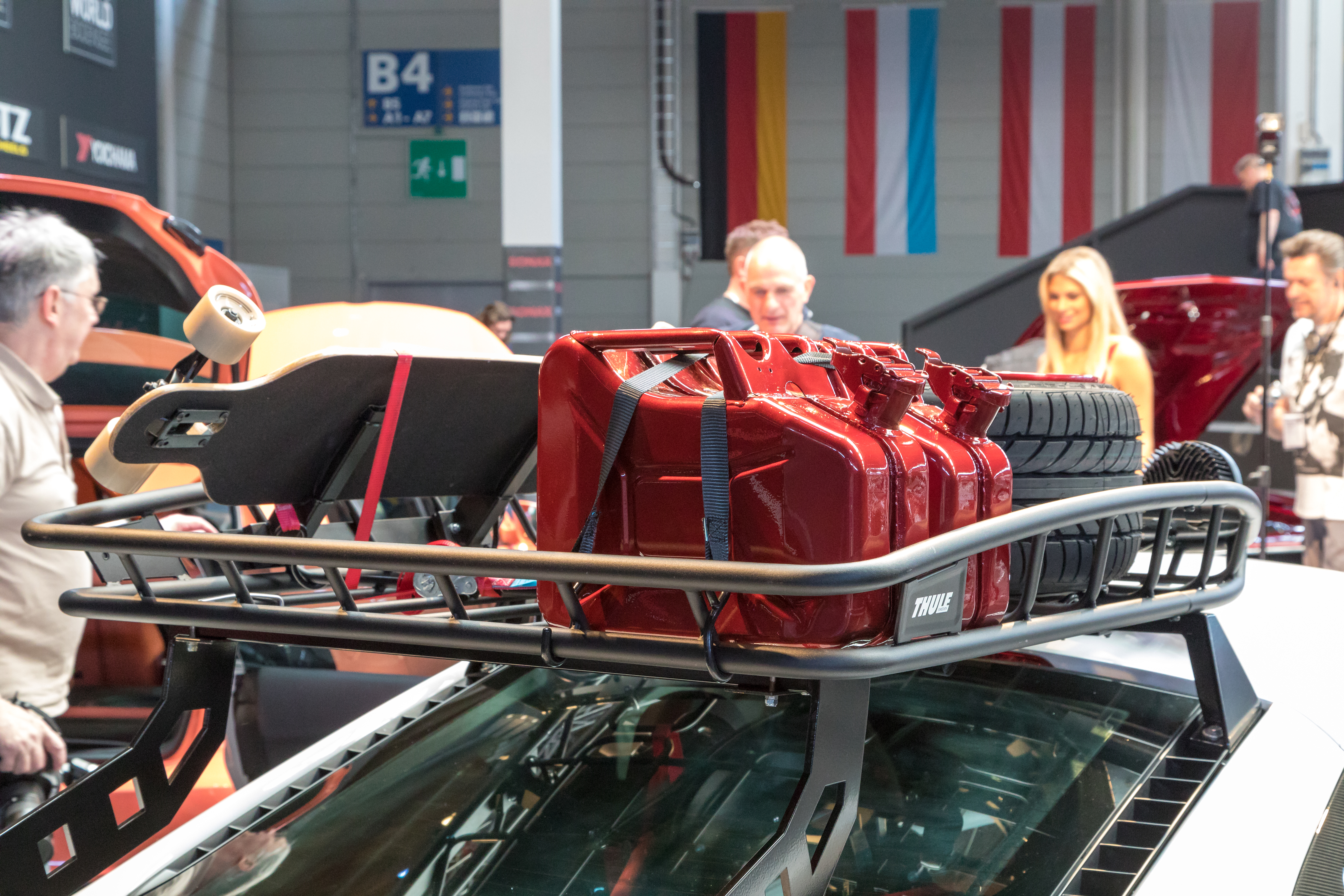 Tuning World Bodensee 2018